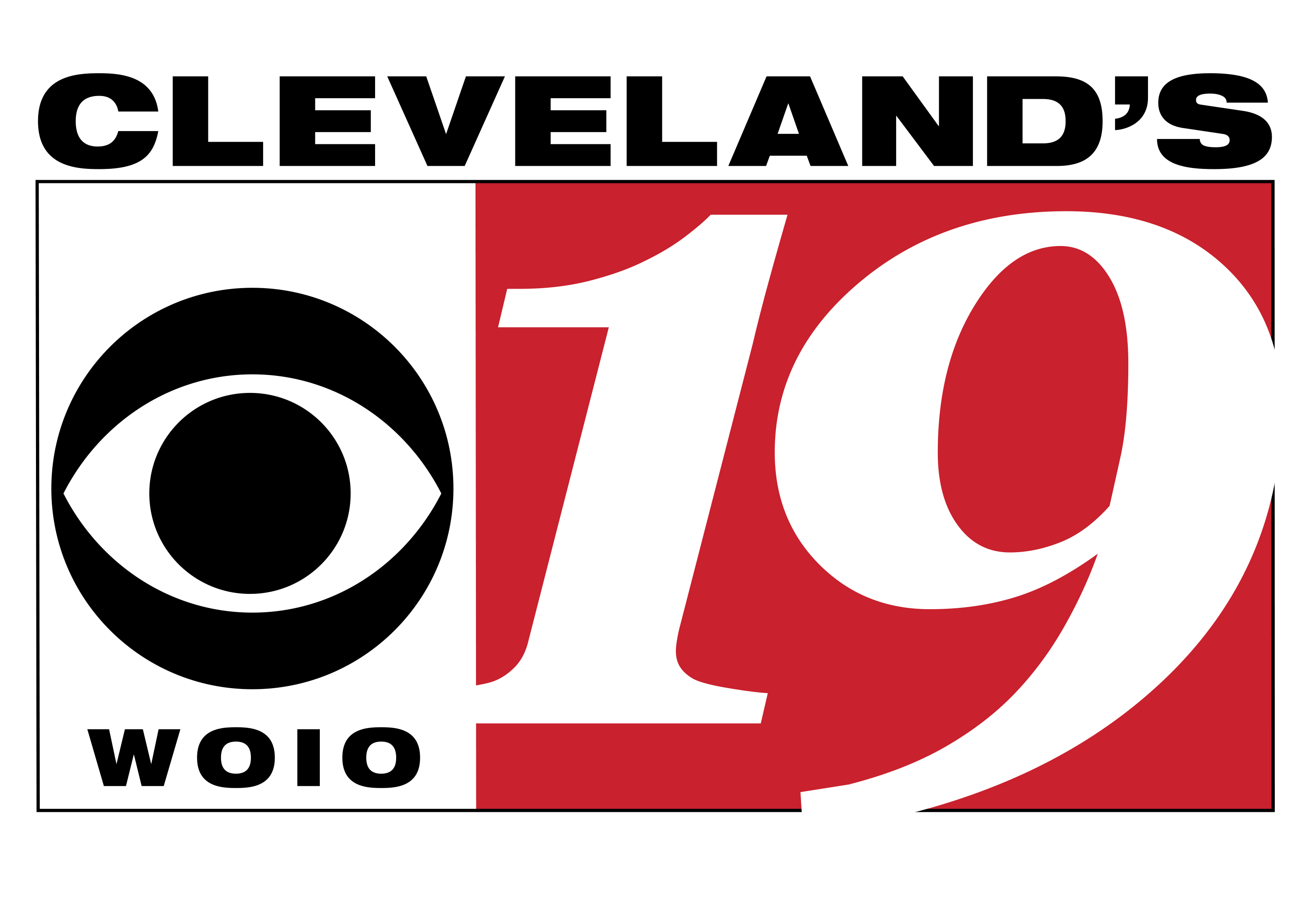 Logo for television station WOIO